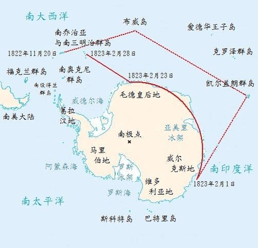 Morrell Antarctic Voyage 1822 in Simplified Chinese